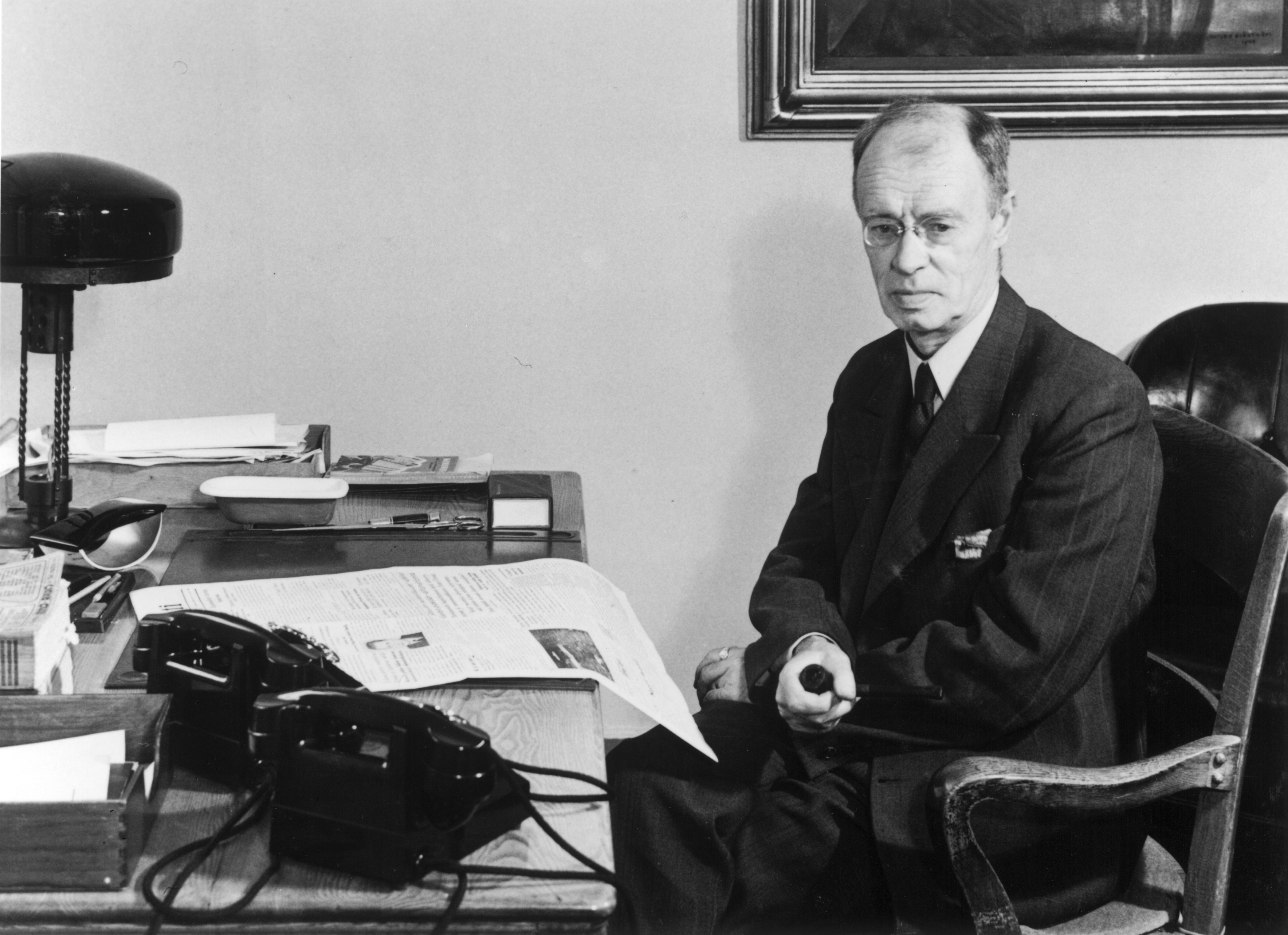 Photograph of the Finnish politician and businessman Paavo Korpisaari (1886–1950).